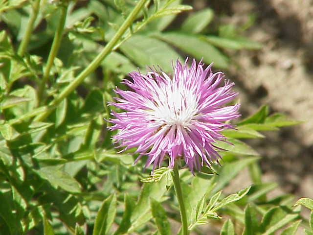 Species: Centaurea dealbata Family: Compositae Image No. 1